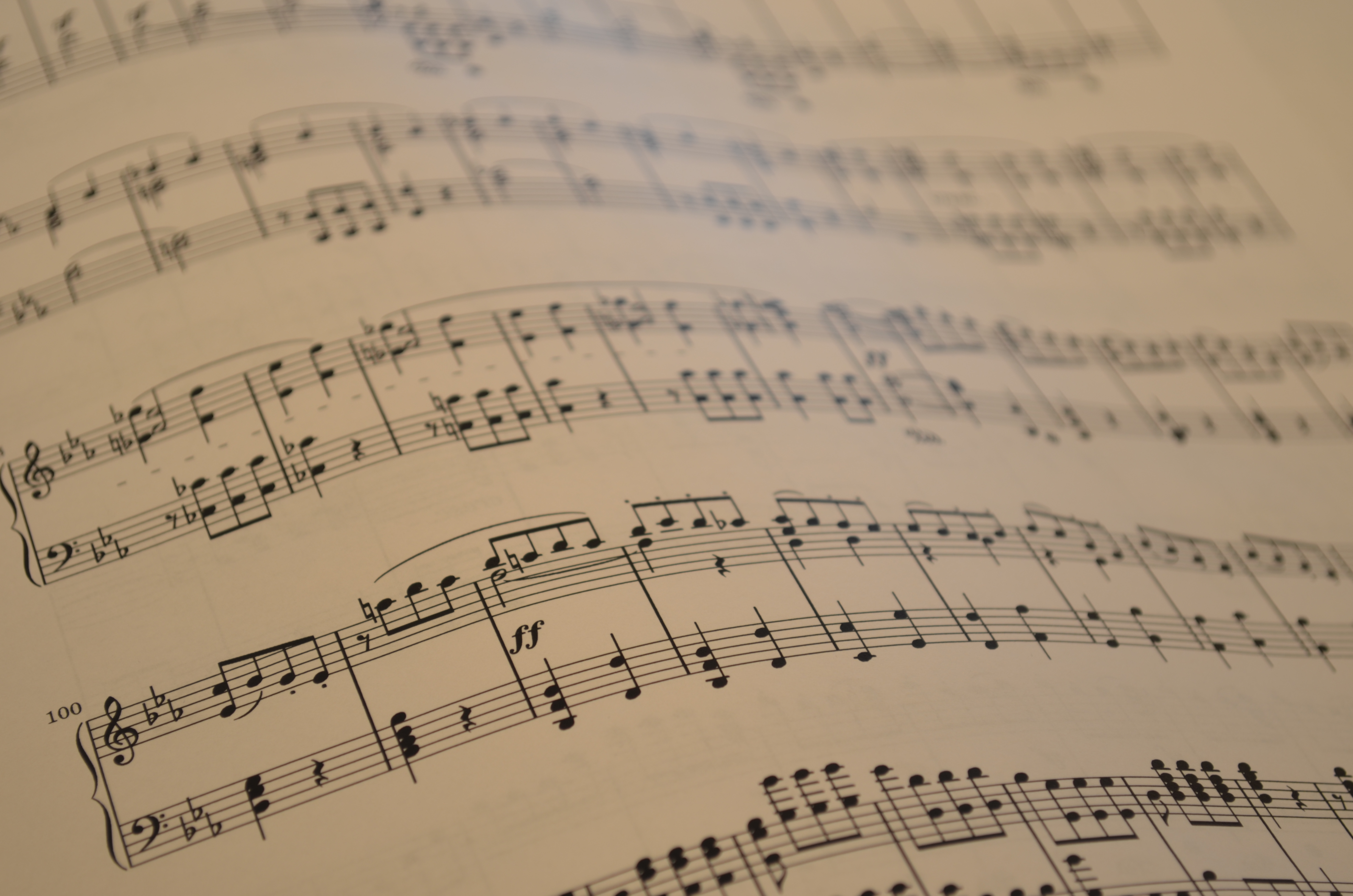 Beethoven Sympony No. 5 - sheet music by the Mutopia Project.